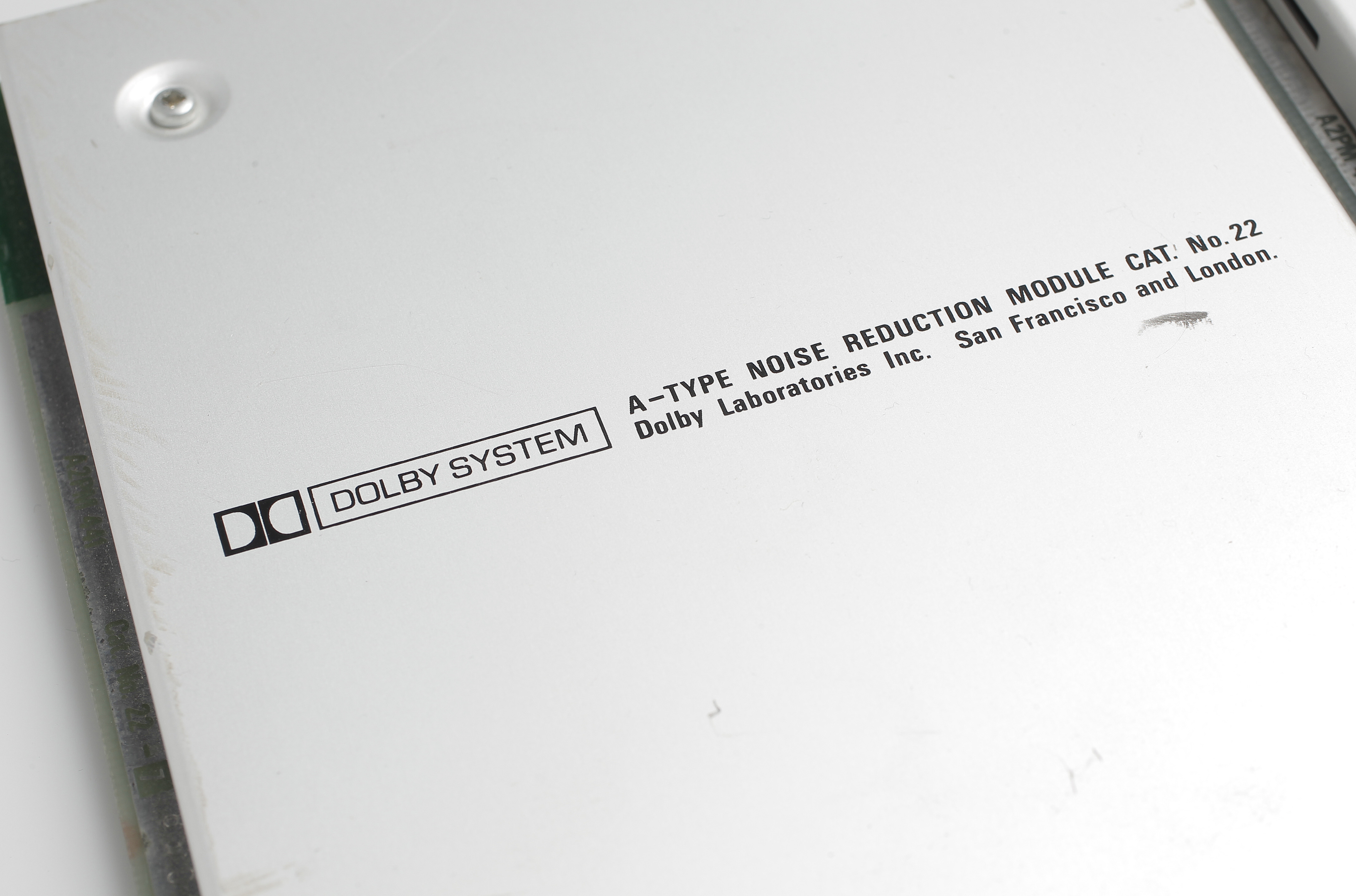 Danmarks Radios arkiv af DRs Kulturarvsprojekt / The archive of the Danish Broadcasting Corporation Photos must be credited "DRs Kulturarvsprojekt"